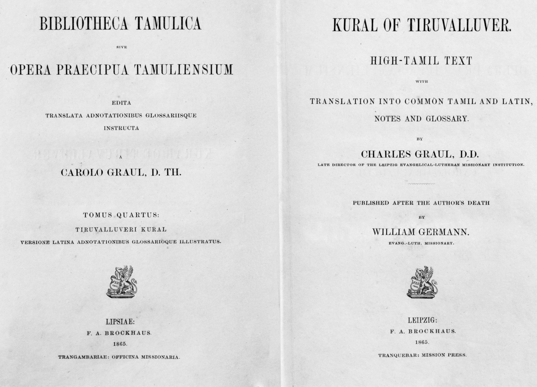 Karl Graul, also spelled Charles Graul, published a German translation of the Tamil classic Tirukkural in 1856 CE, reprinted in many editions (1865 shown above) as well as re-translated into other European languages such as English. It included Beschi's Latin translation (left above). Graul stated the Christian missionary Beschi gave a "Christian coloring" as he translated and interpreted this South Indian text. He himself speculated that this was probably a Buddhist or Jaina text, one that was "appropriated" by Shaiva Hindus sometime in distant history. He recommended that Christian missionaries seeking to influence and convert Tamil Hindu "heathendom" should study this text because they "breathe and live" this text. This Kraul translation was published in 1865, this is a photograph of the cover page (2D-Art), the author died before 1865 according to this publication. Thus Wikimedia's PD-Art guidelines apply. Any rights I have as a photographer, I herewith donate it to wikimedia foundation under creative commons 4.0 license.